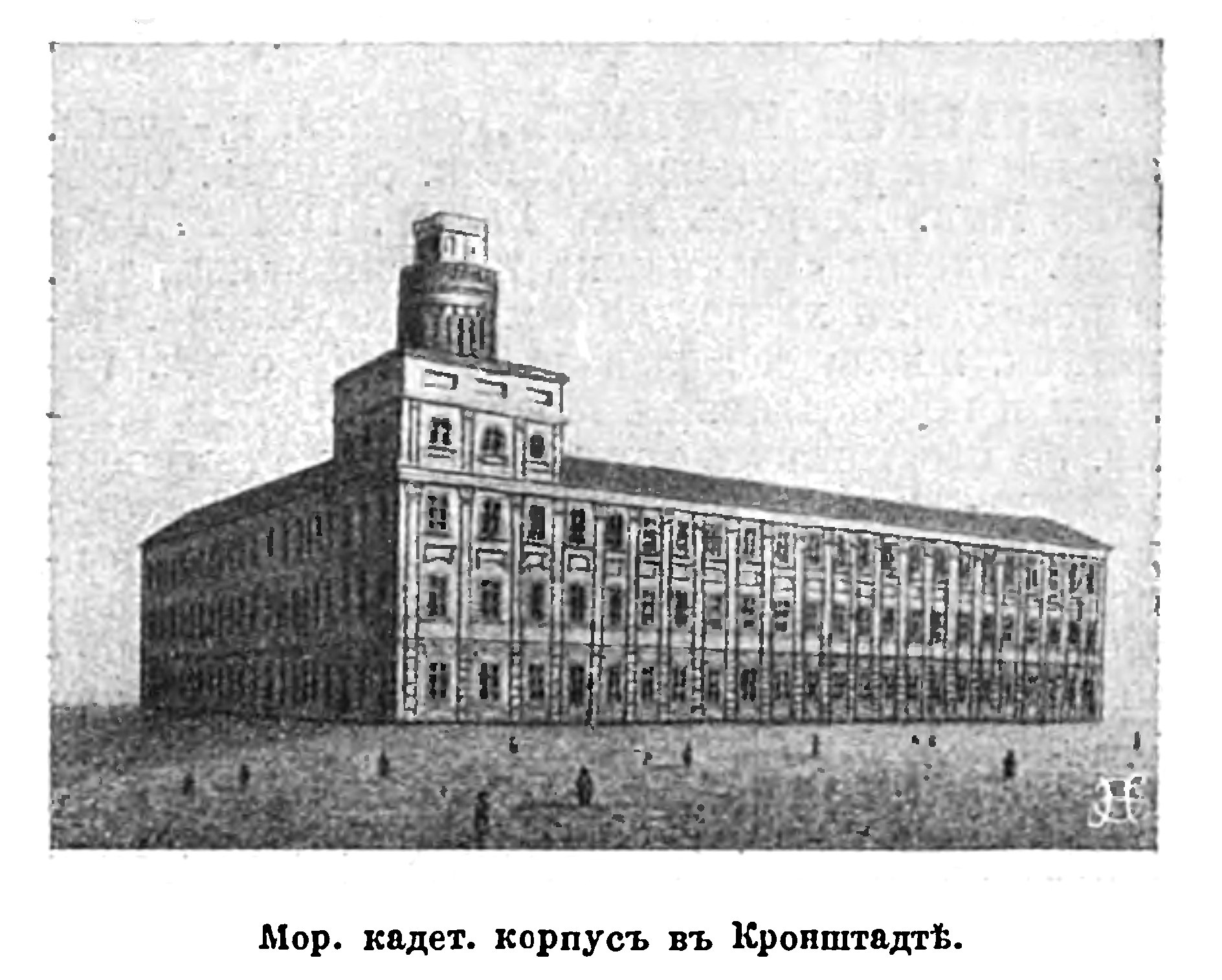 The Sea Cadet Corps (Russian: Морской кадетский корпус), occasionally translated as the Marine Cadet Corps or the Naval Cadet Corps, is an educational establishment for training Naval officers for the Russian Navy in Saint Petersburg.